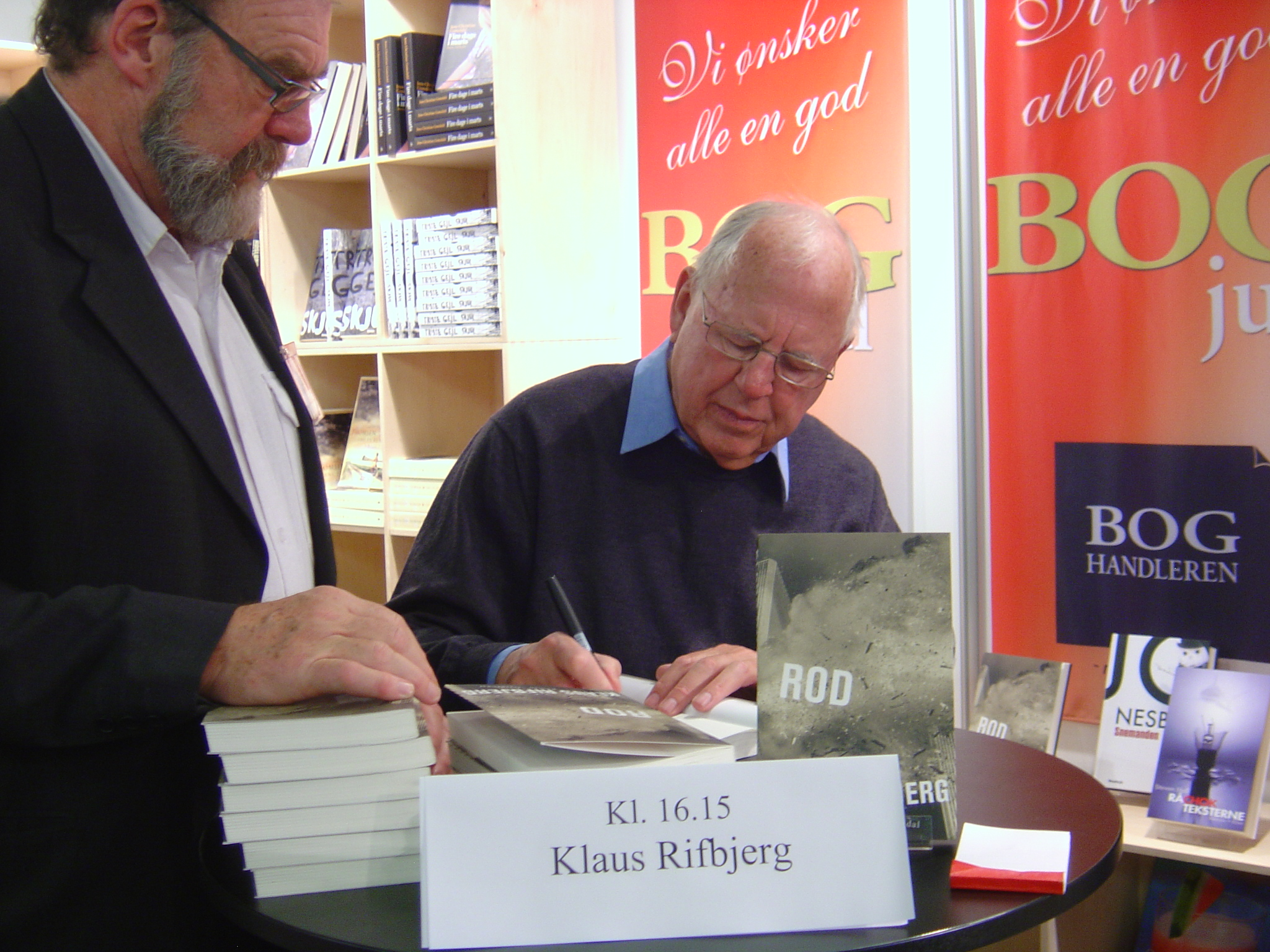 Klaus Rifbjerg - a Danish writer signs his new book, called Rod, on 14 November 2008 at the yearly Danish book fair, BogForum (November 14-16, 2008), in Forum Copenhagen.